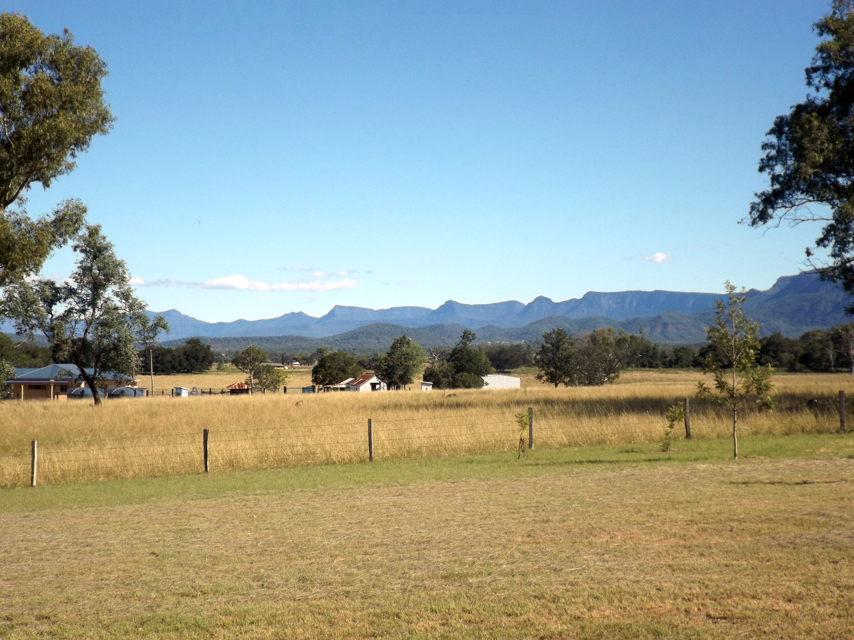 Photo of Main Range from grounds of St Patrick's Church at Rosevale, Scenic Rim Region, Queensland, Australia.